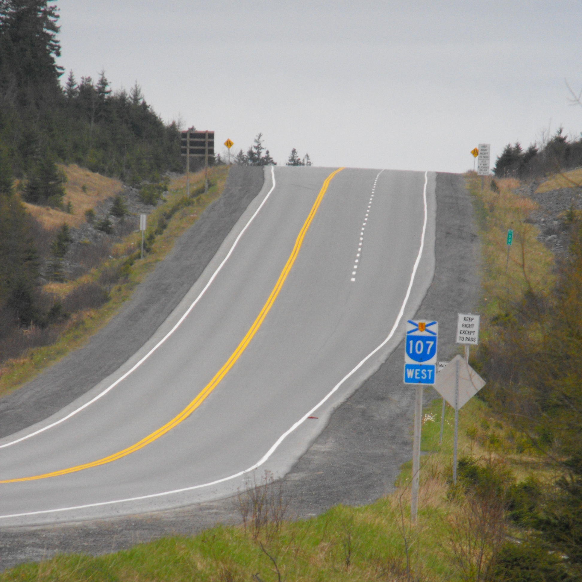 Roadside, Nova Scotia Route 107, Halifax Regional Municipality